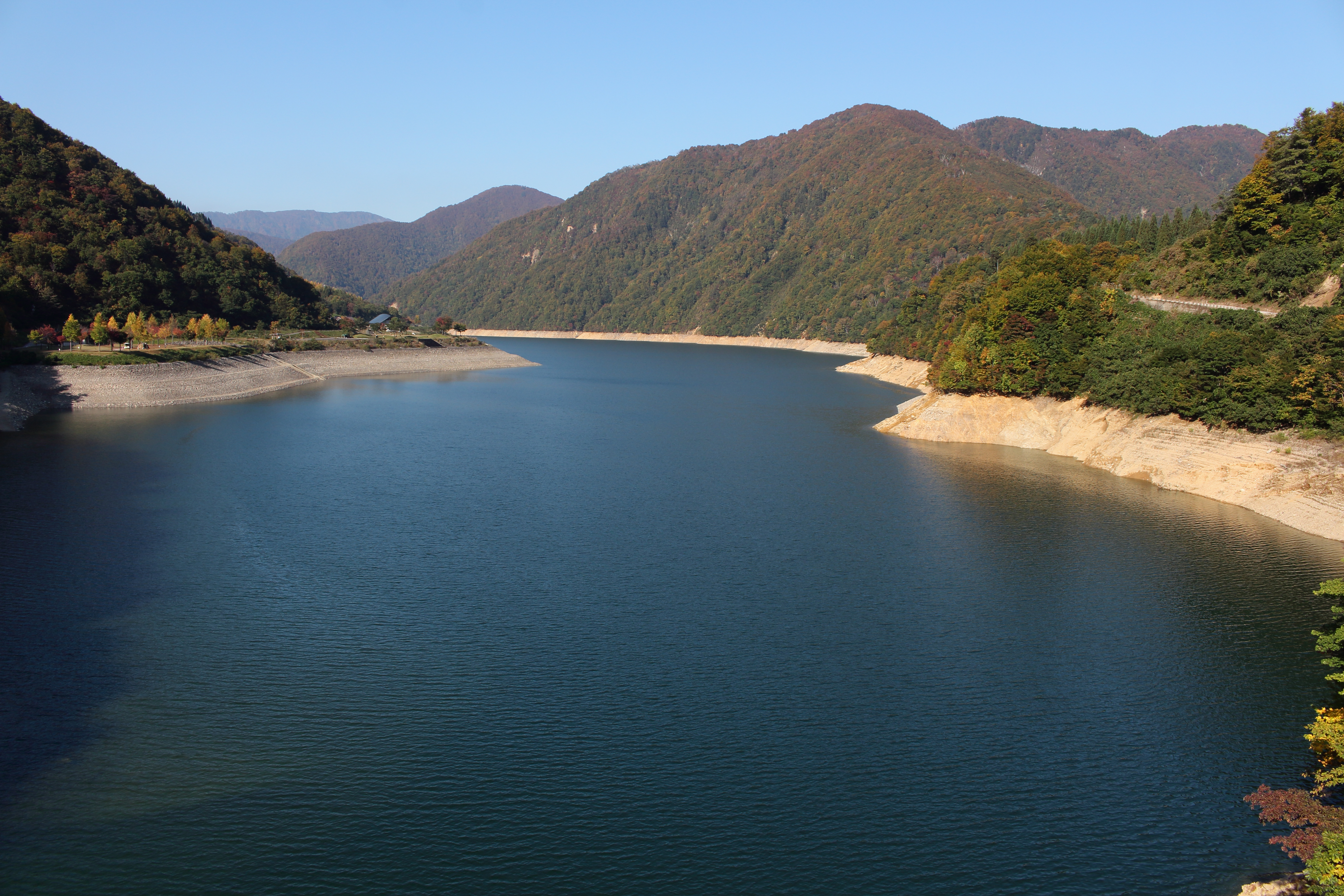 Laku Katsura in Nanto, Toyama prefecture and Shirakawa, Gifu prefecture, Japan.